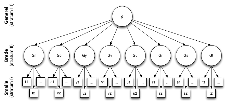 Three-stratum theory is a theory of cognitive ability proposed by the American psychologist John Carroll in 1993.